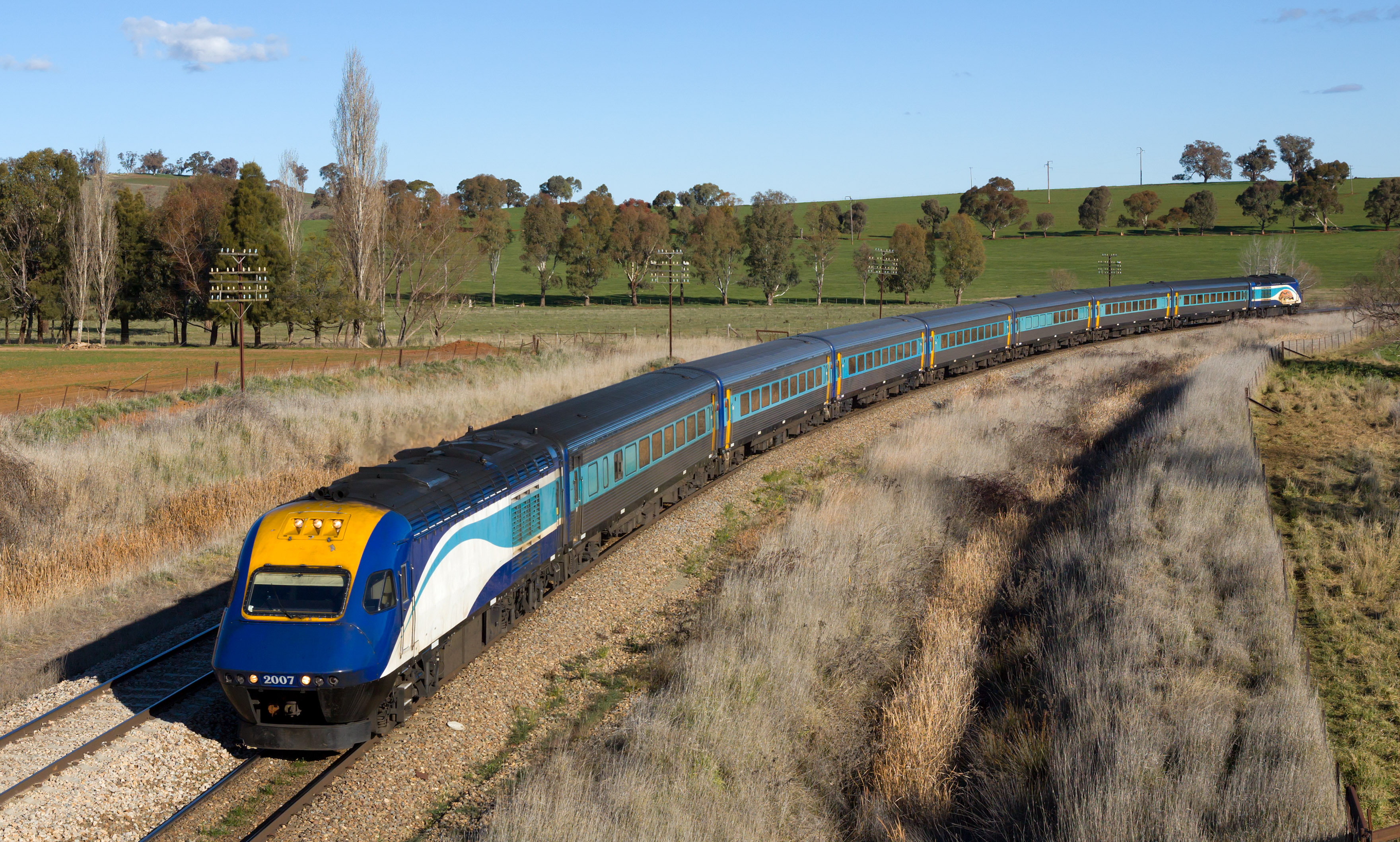 A New South Wales TrainLink XPT set is en route from Melbourne to Sydney, pictured between Jindalee and Morrisons Hill, New South Wales, Australia.